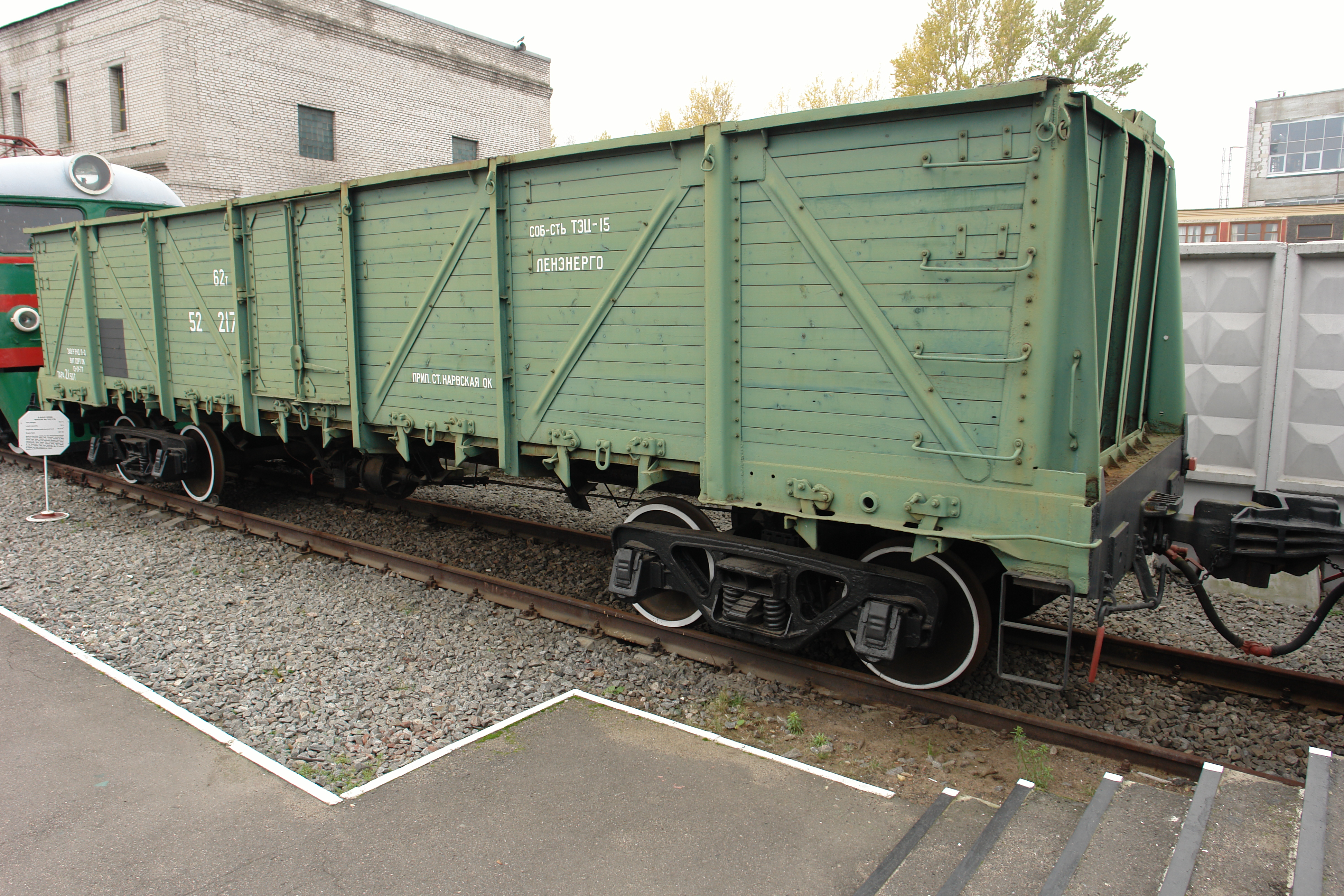 4-axle open wagon No 522178 Tare weight22 7t Load capacity62tm Capacity volume with leveled load66.8 m3 Bogie typeMT-50 Built in the late 1940s by the Dneprodzerzhinsk Works named after the 'Pravda' newspaper. From the late 1960s or early 1970s it was owned by the No 15 electric power station in Leningrad and used for transporting peat. It is painted green, which was typical for wagons which did not belong to the MPS. It came to the museum from the No.15 power station in St Petersburg in 1999.